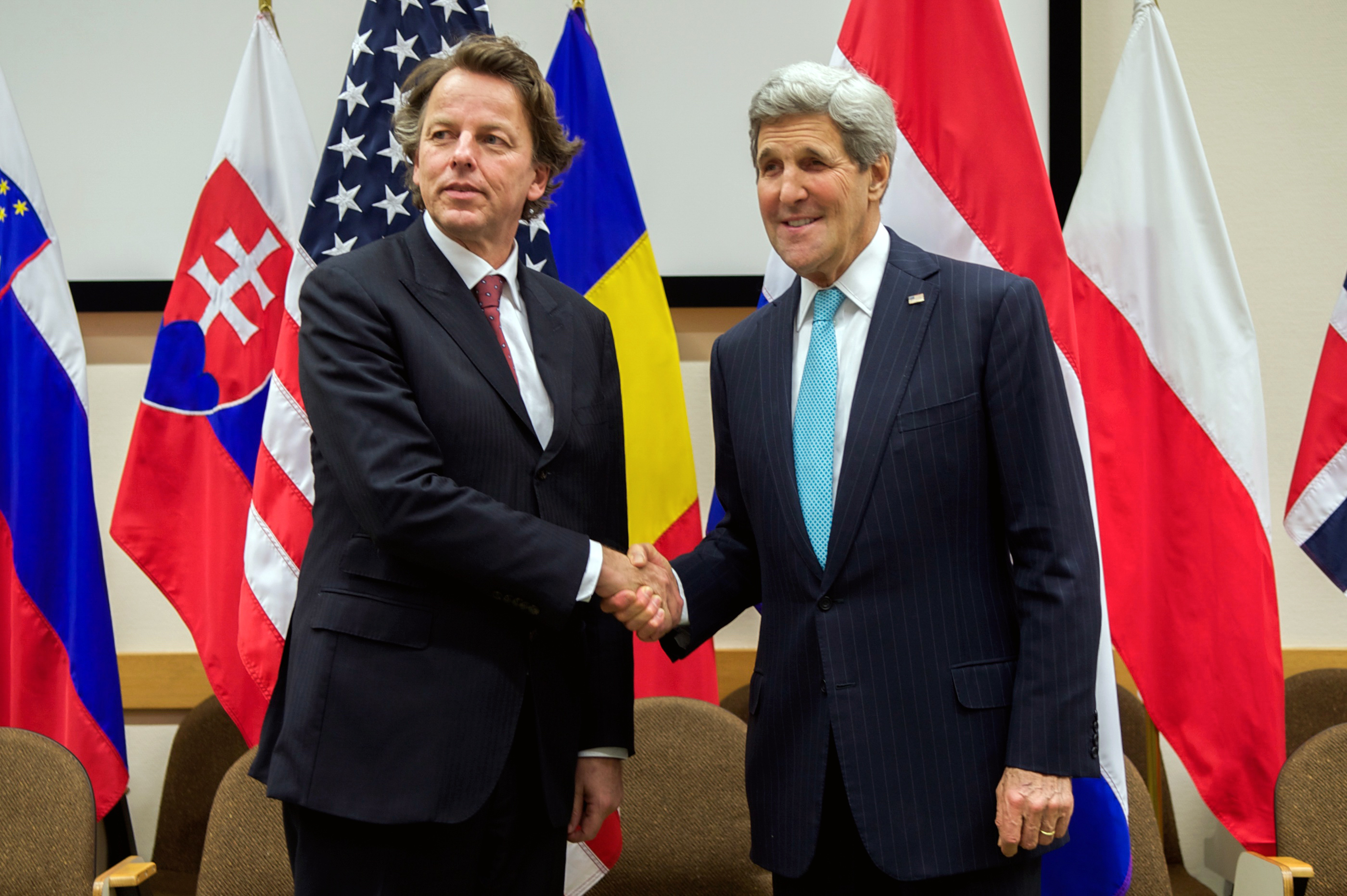 U.S. Secretary of State John Kerry shakes hands with Foreign Minister Albert Koenders of The Netherlands before a bilateral meeting on the margins of a series of multinational discussions on December 2, 2014, at NATO Headquarters in Brussels, Belgium.